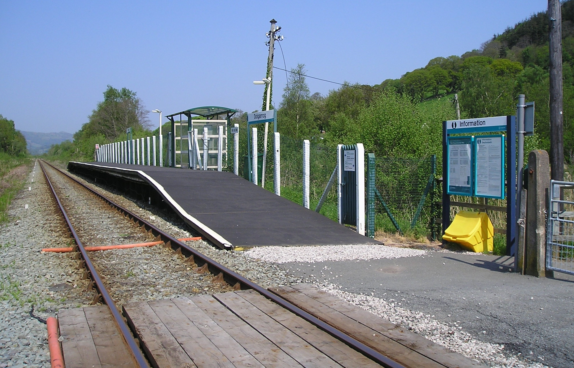 Taken by me Noel Walley